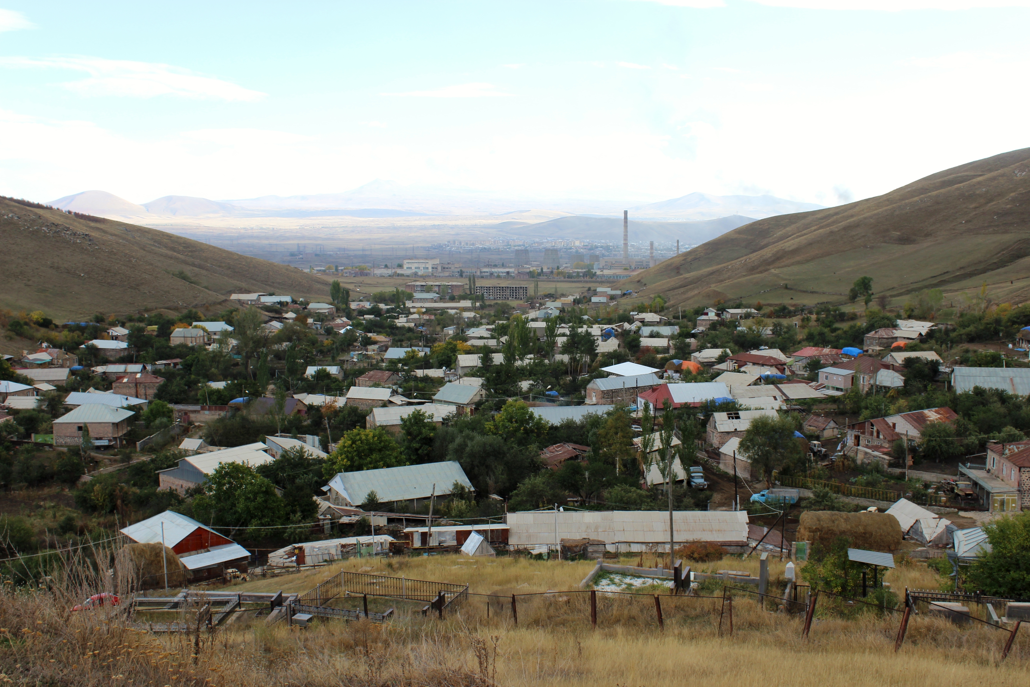 Kakavadzor, Kotayk Province near Hrazdan